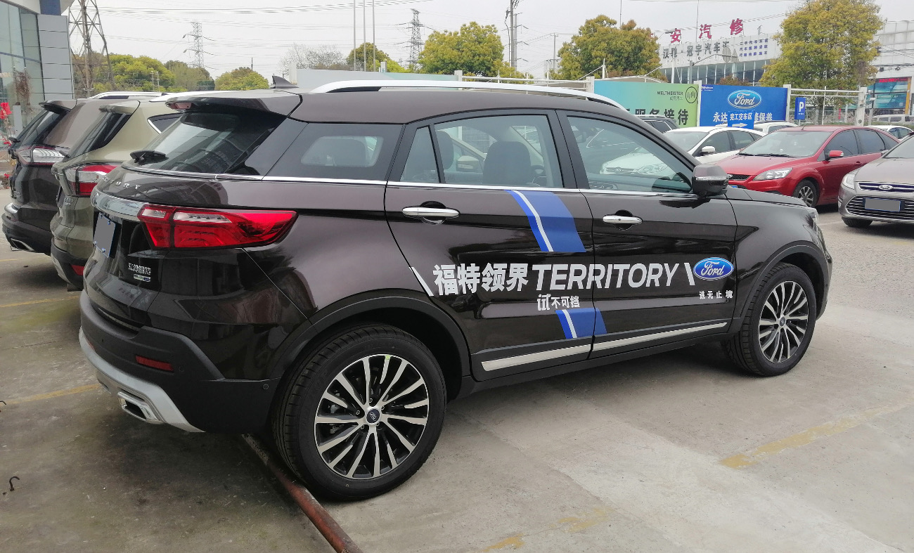 Ford Territory CN photographed in Shanghai, China.